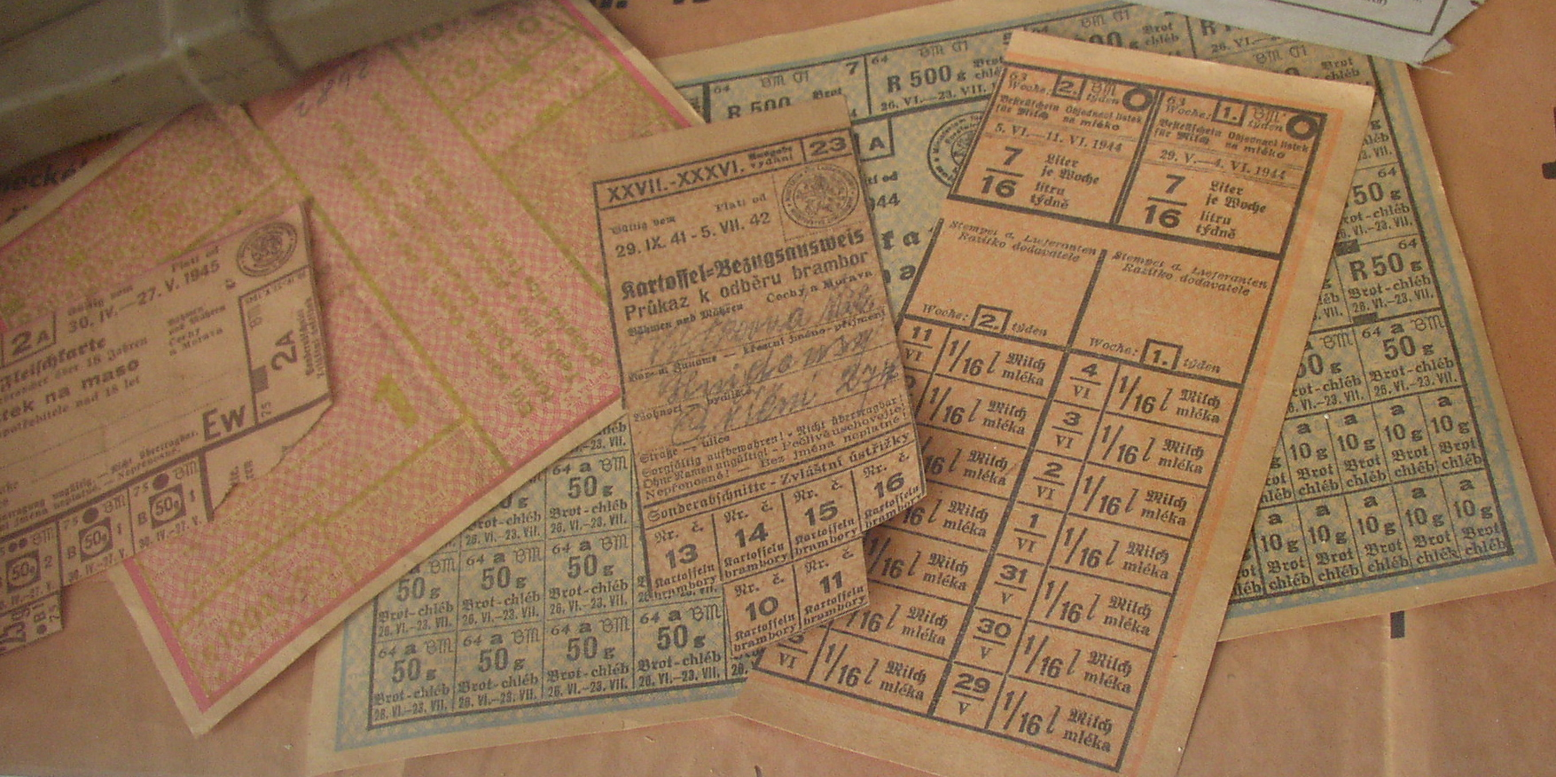 World War II ration stamps for meat, bread, potatoes and milk from Protectorate of Bohemia and Moravia.